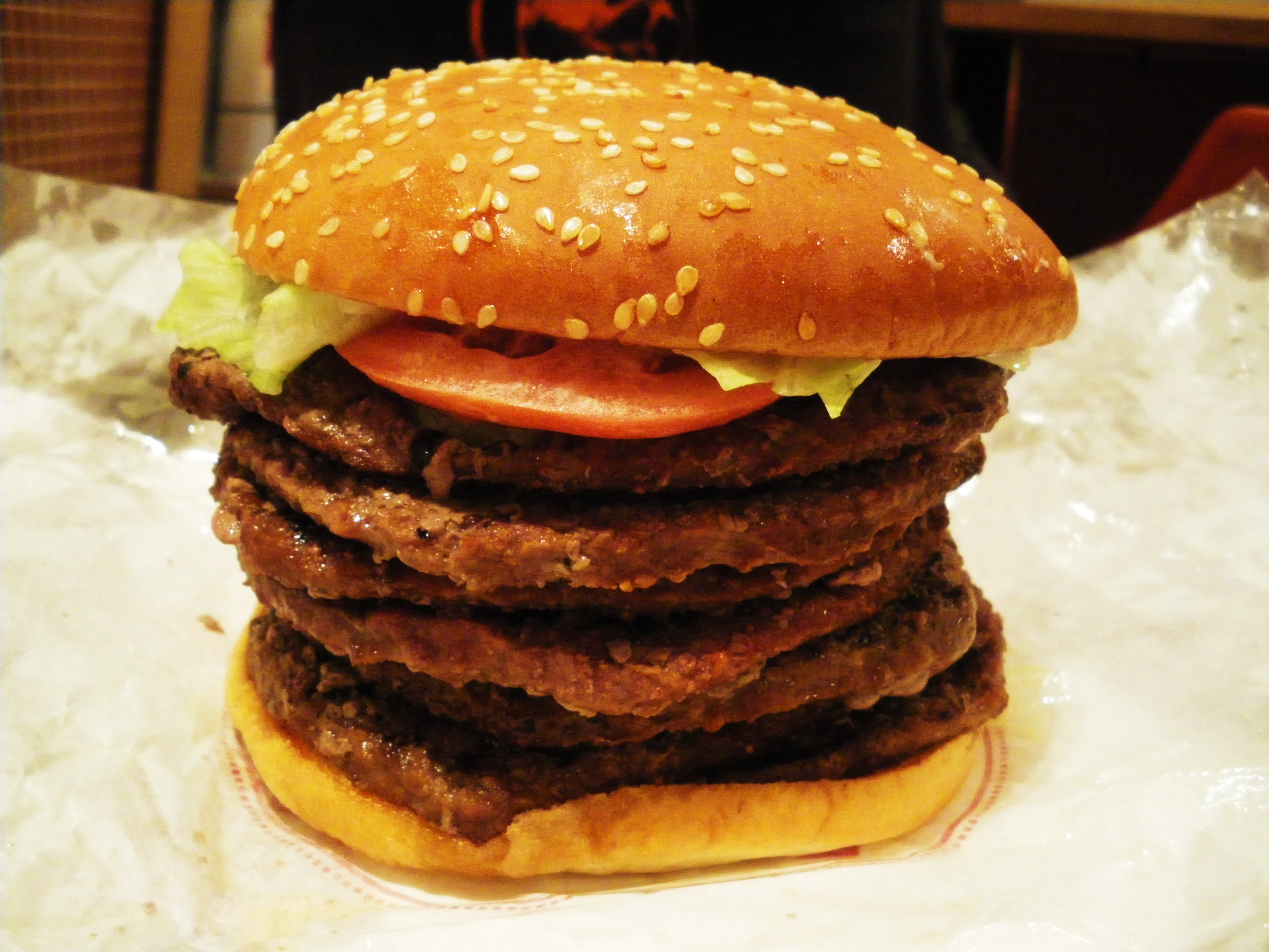 Close up of a Windows 7 Whopper, which was a Burger King sandwich created to promote the Microsoft Windows 7 operating system.